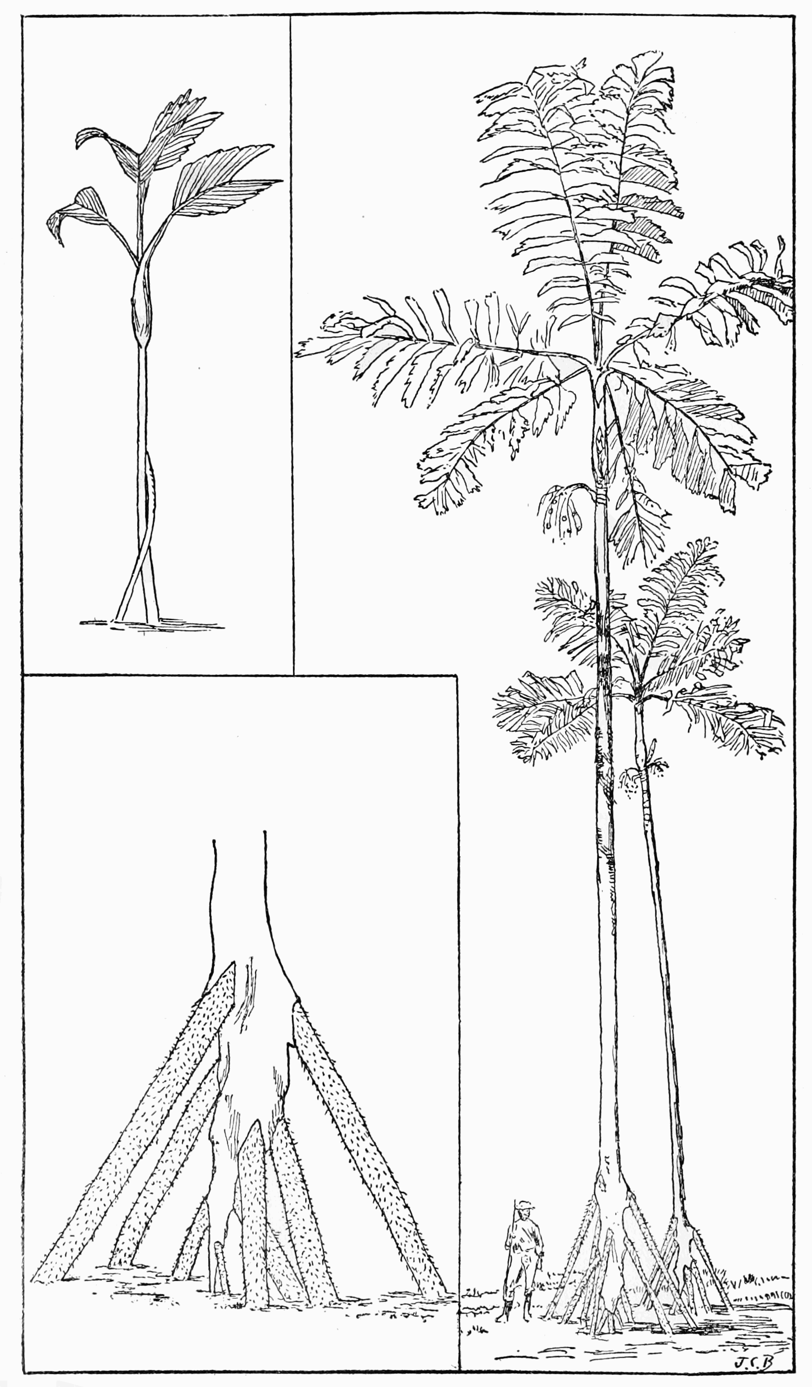 Iriartea exorrhiza = Socratea exorrhiza